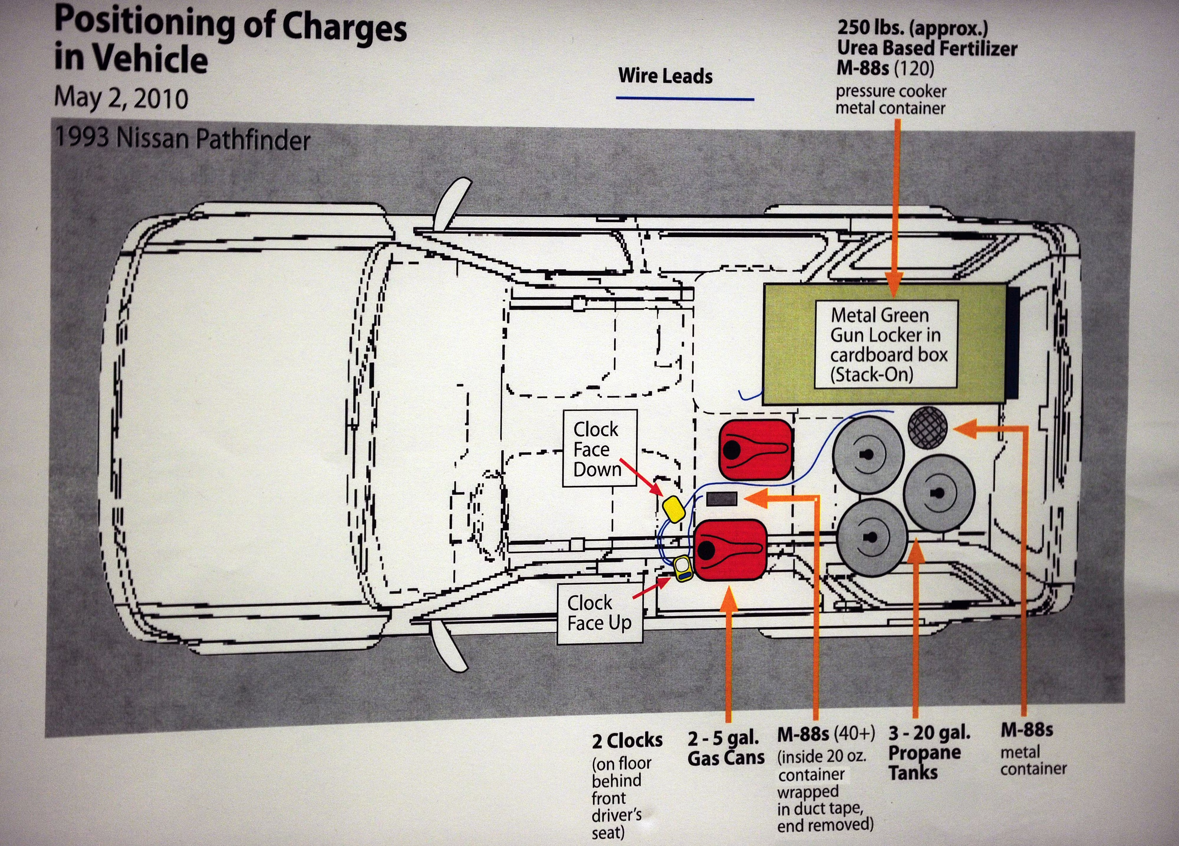 Photo showing the positioning of charges in vehicle found in Times Square